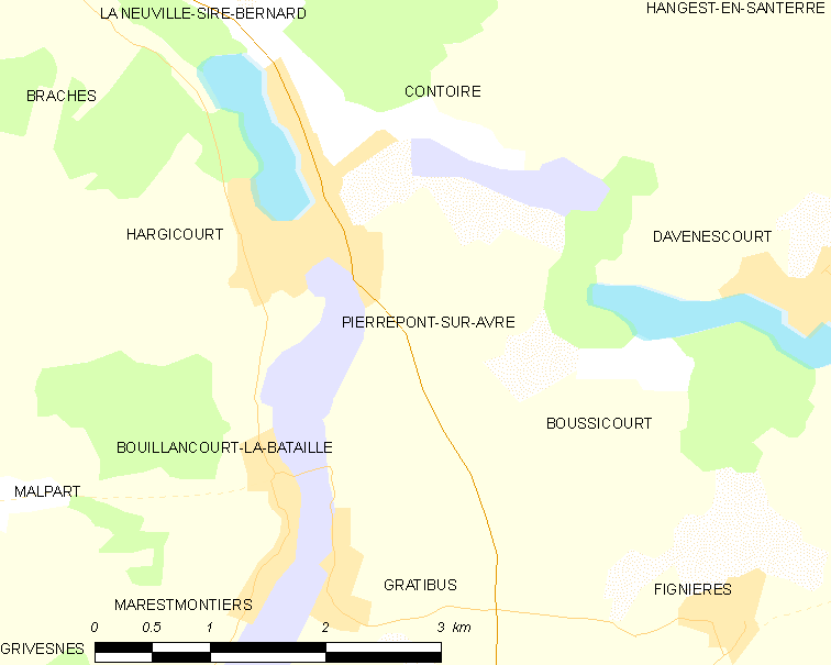 Map of French municipality Pierrepont-sur-Avre